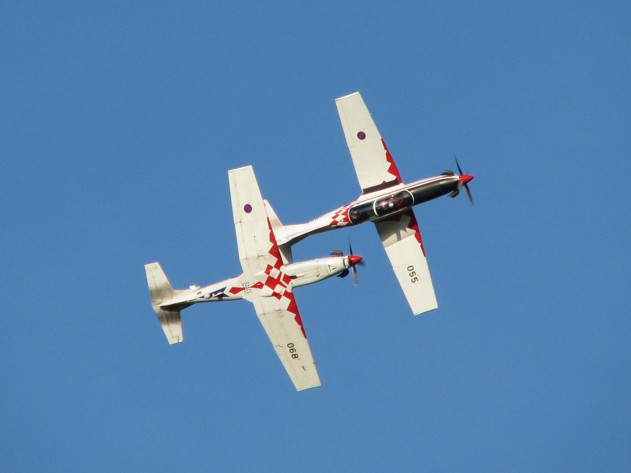 Croatian air force aerobatic display team Wings of Storm, Karlovac, 2009